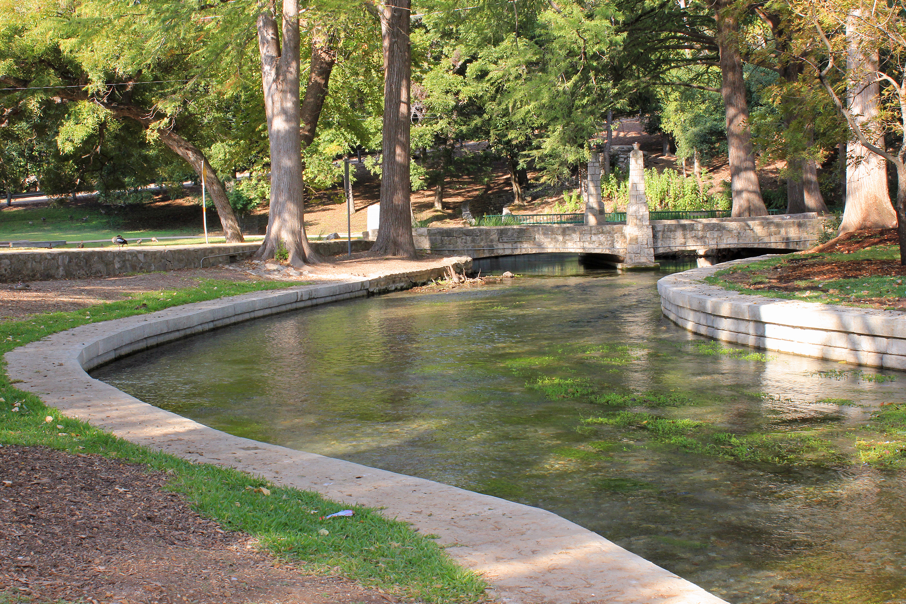 The Comal River in Landa Park, New Braunfels, Texas, United States.